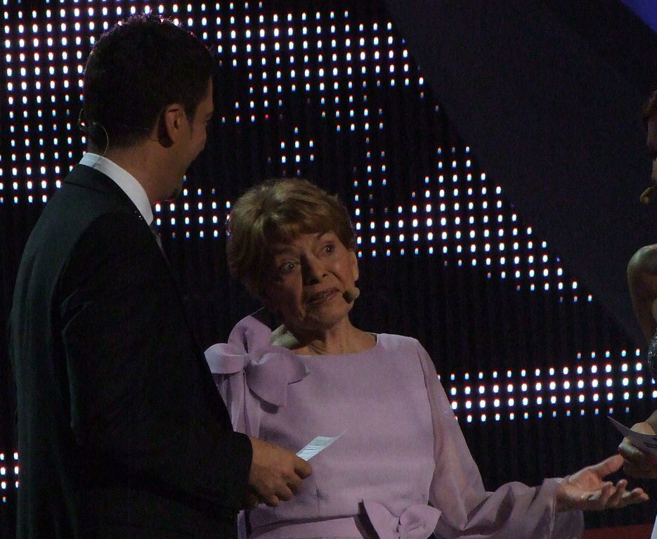 Lys Assia, very first ESC winner, special guest at Eurovision Song Contest 2008 in Belgrade, Serbia, May 22, 2008.